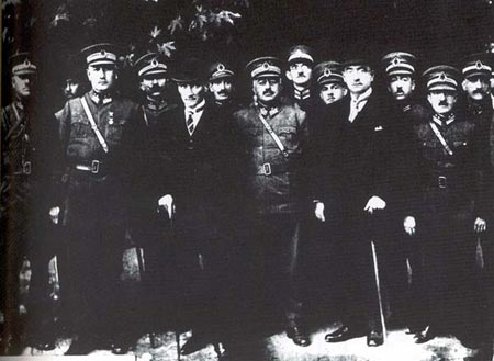 Ali Said (Akbaytogan), Mustafa Kemal (Atatürk), Ali Hikmet (Ayerdem), and Nuri (Conker) at Bursa in 1925.